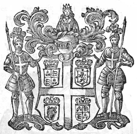 Arms of Virginia Company, as depicted in John Stow's Survey of London (1632): Argent, a cross gules, between four escutcheons, each regally crowned proper, the first escutcheon in the dexter chief, the arms of France and England, quarterly; the second in the sinister chief, the arms of Scotland; the third the arms of Ireland; the fourth as the first. The crest was: On a wreath of the colours, a maiden queen couped below the shoulders proper, her hair dishevelled of the last, vested and crowned with an Eastern crown or. The supporters were: Two men in complete armour, with their beavers open, on their helmets three ostrich feathers argent, each charged on the breast with a cross throughout gules, and each holding in his exterior hand a lance proper. The Latin motto was: En dat Virginia quartam (quintam) ("Behold, Virginia gives a fourth (fifth) (dominion)"), recognizing the colony's status alongside the queen's/ king's other three (four) dominions of England, Ireland, France (a heraldic fiction), and after the 1707 Act of Union, Scotland